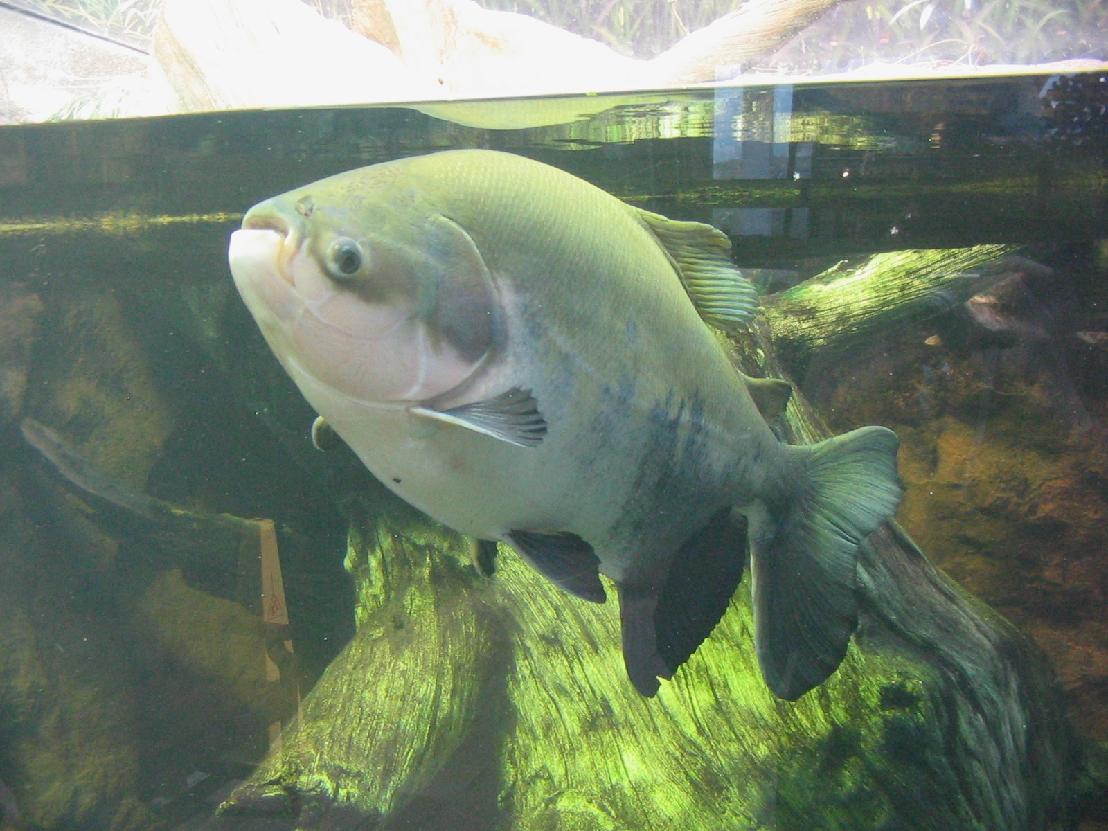 Large Pacu at the Shedd Aquarium, Chicago.